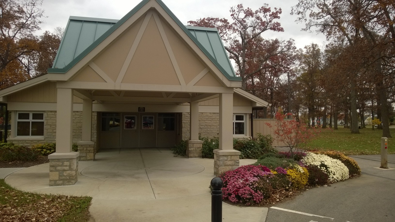 Westgate Community Center, Columbus, OH